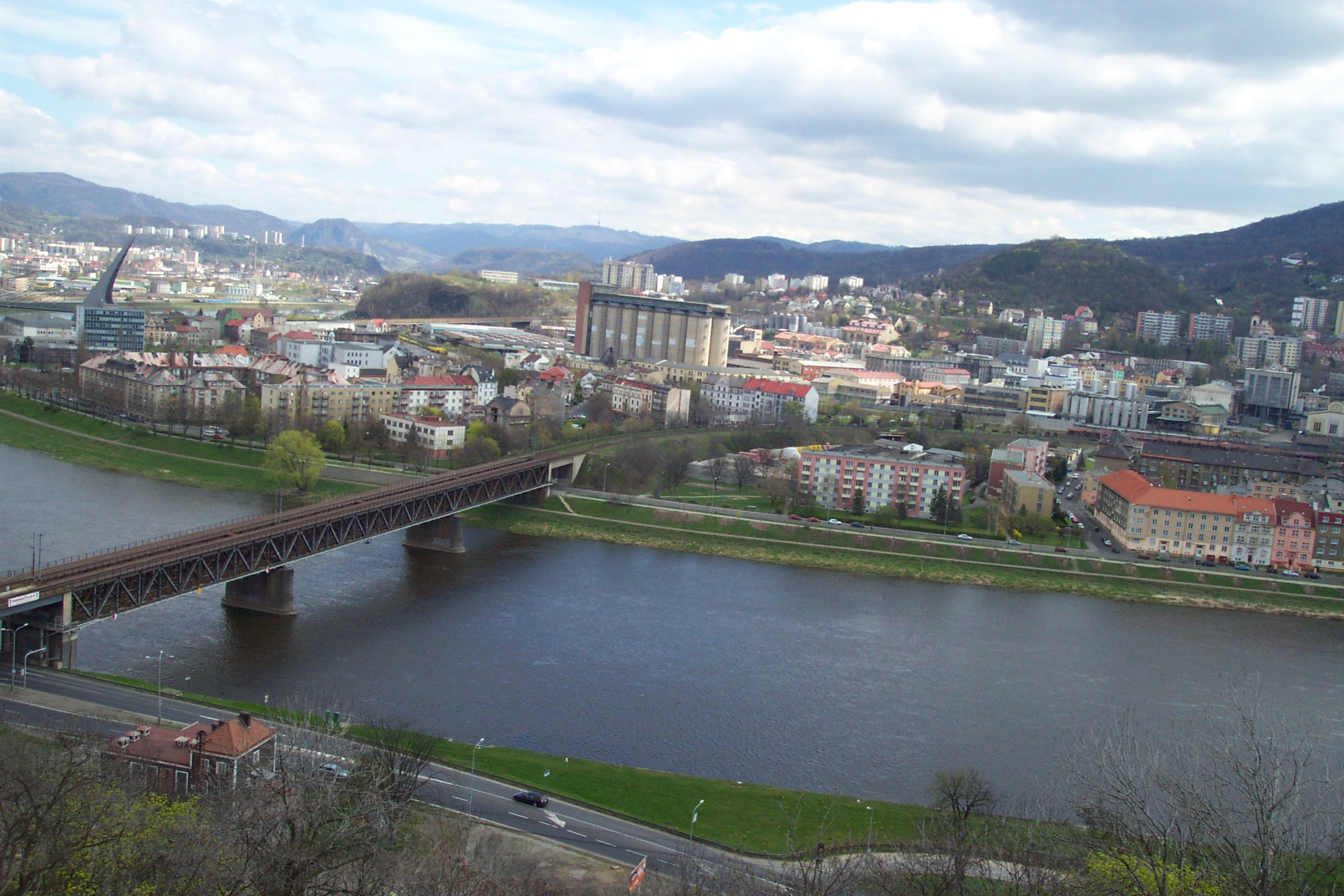 Ústí nad Labem, Větruše, a wiev of the city